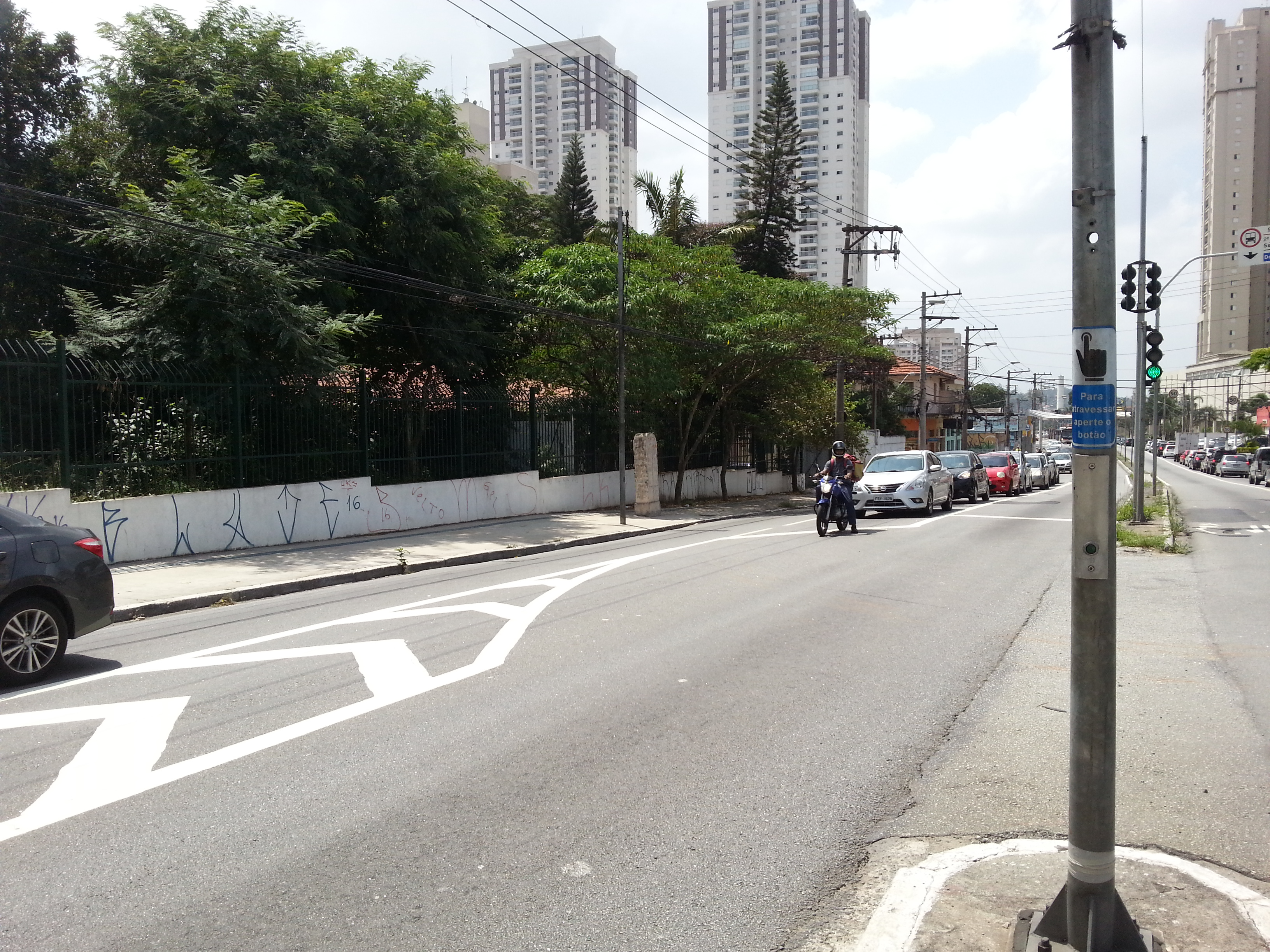 visão geral do MARCO RODOVIÁRIO , in São Paulo, Brazil.